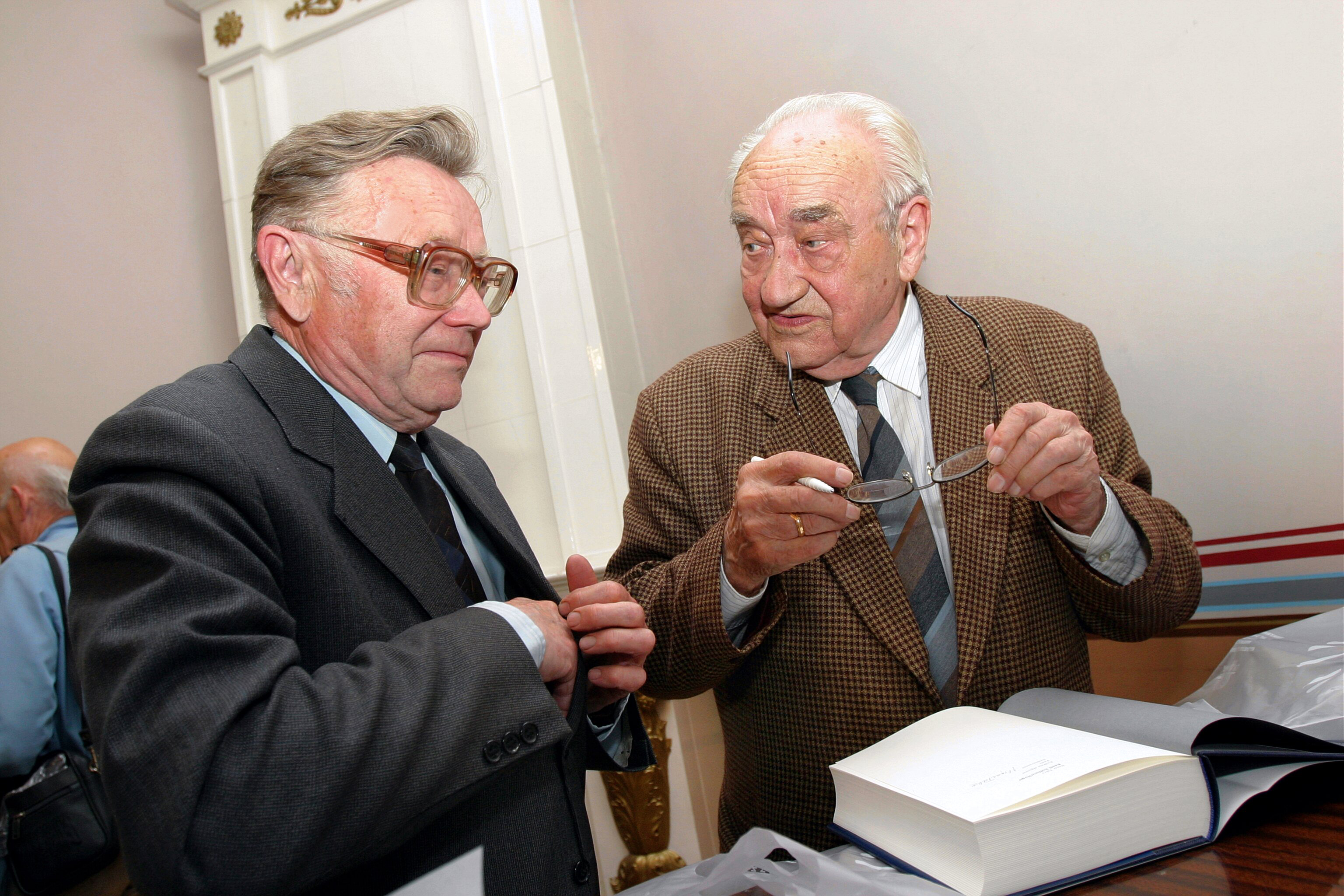 Helmut Piirimäe (left) and Ilmar Talve (right).